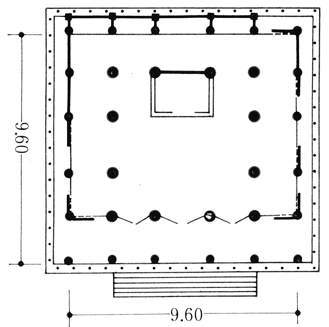 Layout of Eihô-ji Kannon-dô